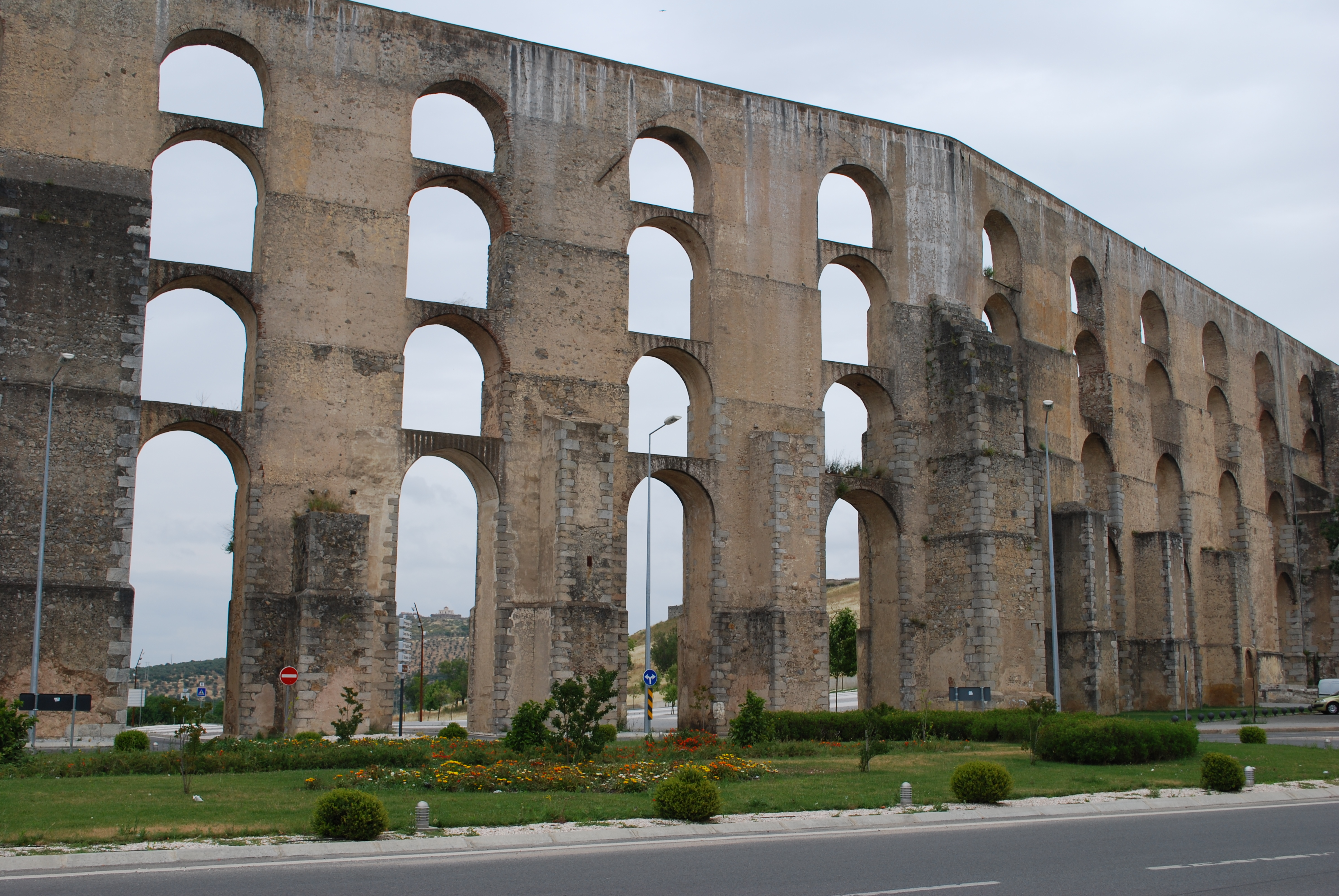 This file was uploaded for Wiki Loves Monuments in Portugal with the unique identifier 70195.